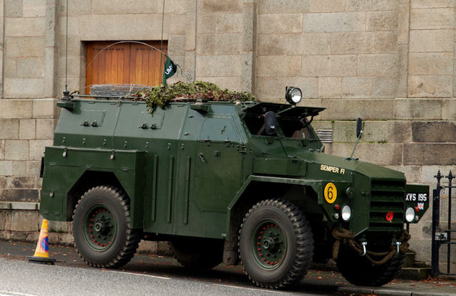 Preserved army vehicle, Hillsborough